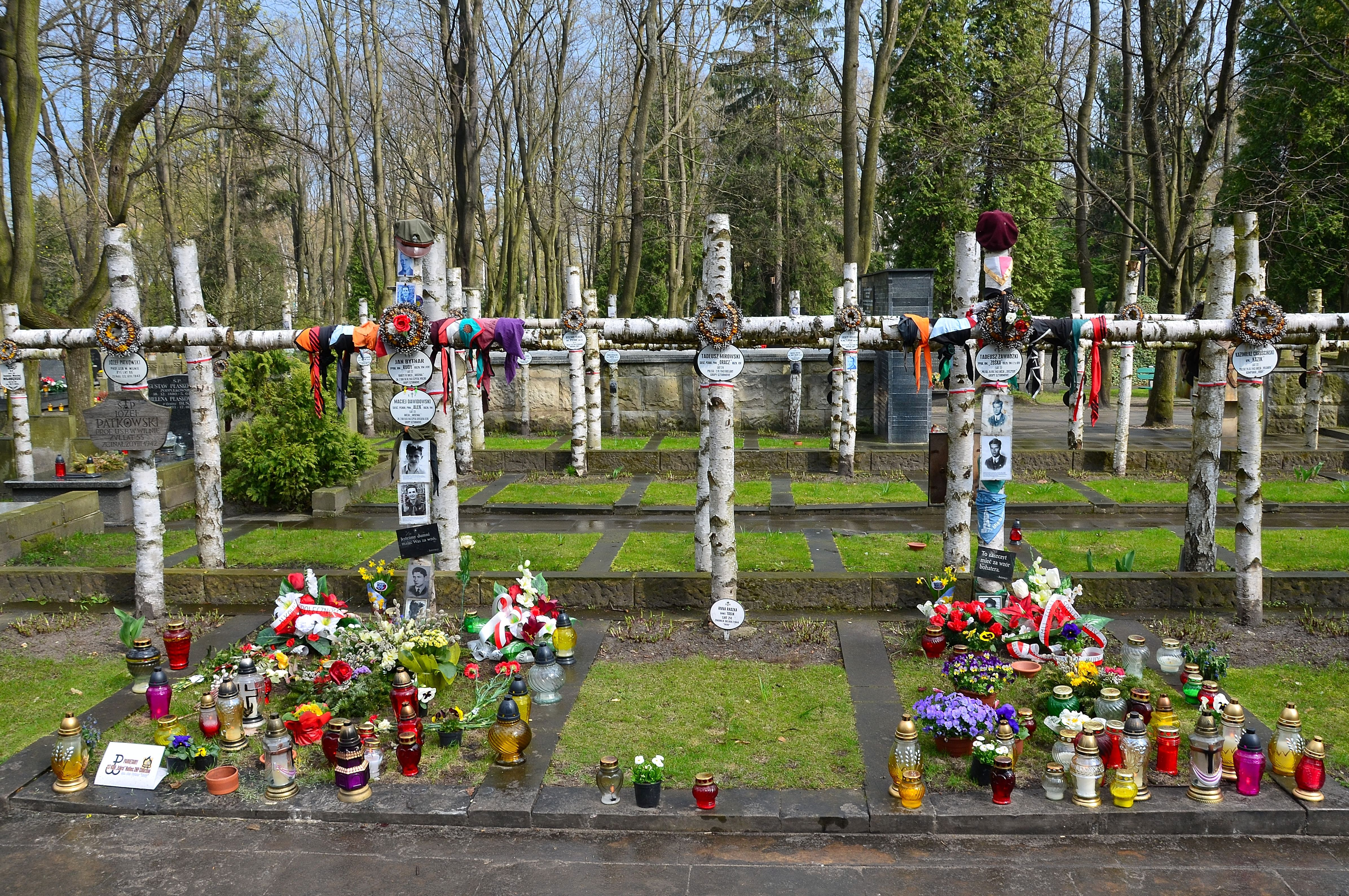 Graves of, inter alia, Jan Bytnar "Rudy", Maceij Aleksy Dawidowski "Alek" and Tadeusz Zawadzki "Zośka" in the Battalion "Zośka" quarter in the Powązki Military Cemetery in Warsaw